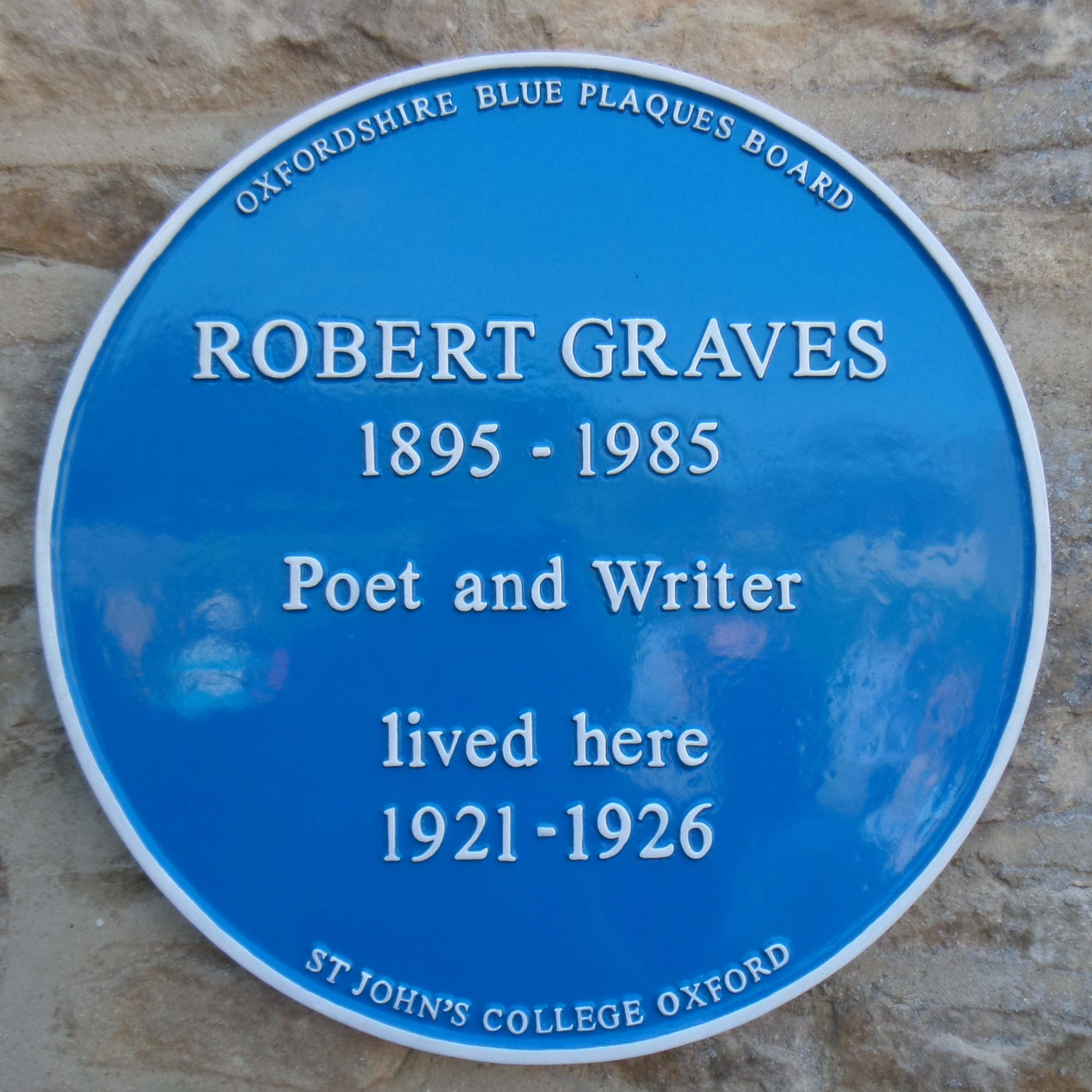 plaque for Robert Graves in Islip, UK